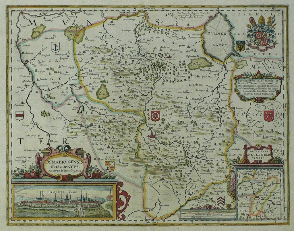 Map of the Prince-Bishopric of Osnabrück published in 1642. The map is dedicated to the ruling prince-bishop, Franz Wilhem von Wartenberg (in cartouche center right). The coat of arms of that prince-bishop (seen top right) combined the coat of arms of Osnabrück (the wheel) and that of the counts of Wartenberg (the Palatinate lion). The insert, bottom right, shows the district of Reckenberg, an exclave located to the southwest of the prince-bishopric. Map engraved by von Gigas and published by Janssonius in 1642.